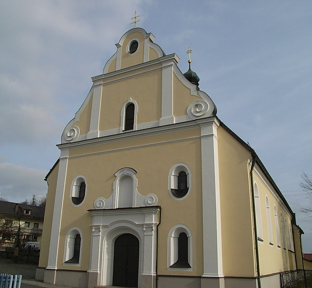 March (Regen), north western facade of St Peter and Paul Parish Church.